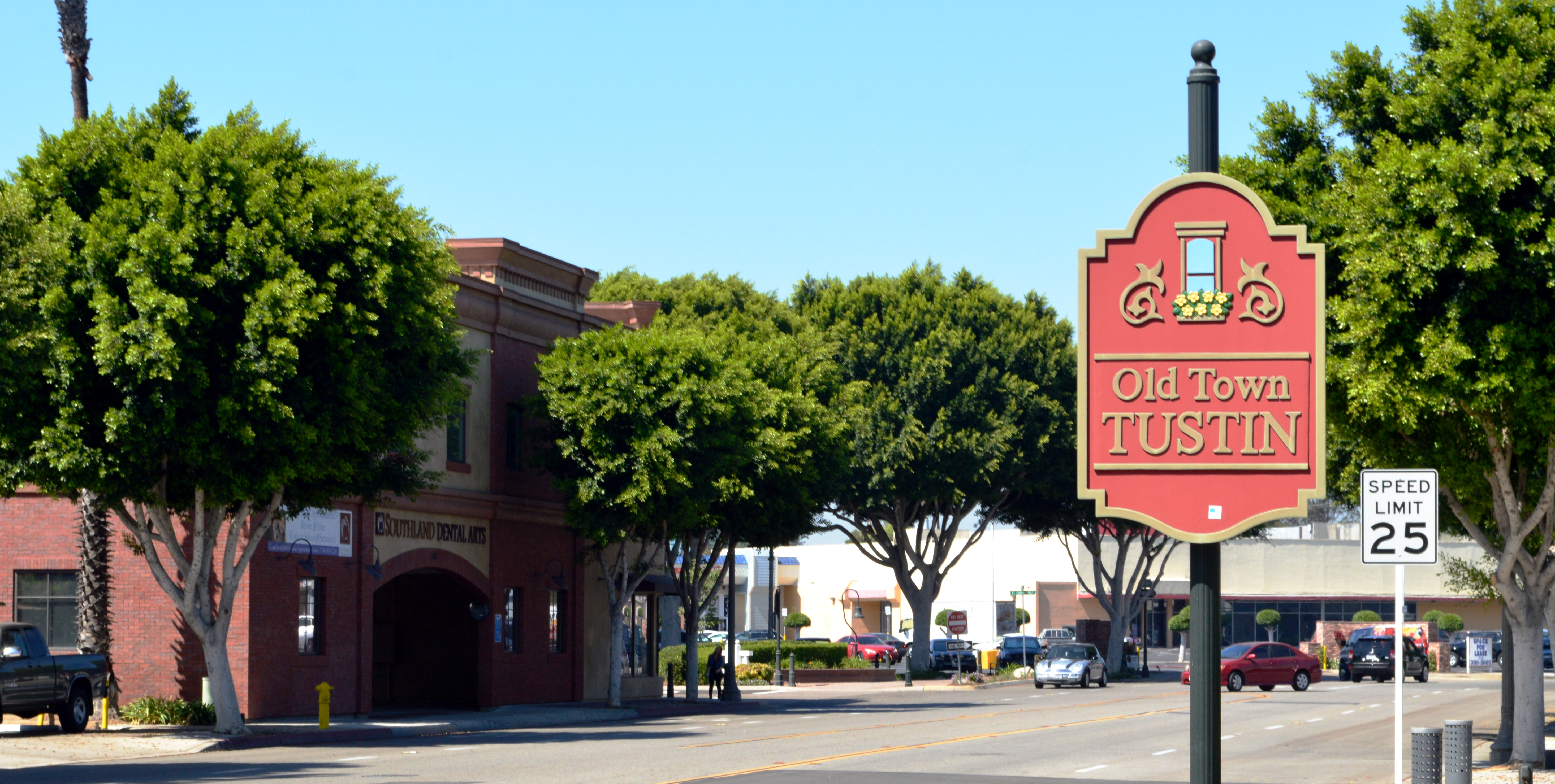 El Camino Real near Newport Avenue in Old Town Tustin, Tustin, Orange County, California. If you zoom in, you can see an El Camino Real bell in the middle, at the intersection with El Camino Way.